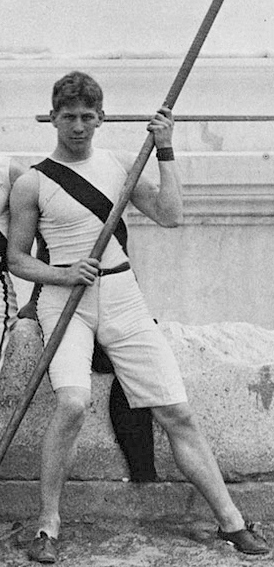 Robert Garrett and Albert Tyler at the Olympic Games in Athens in 1896